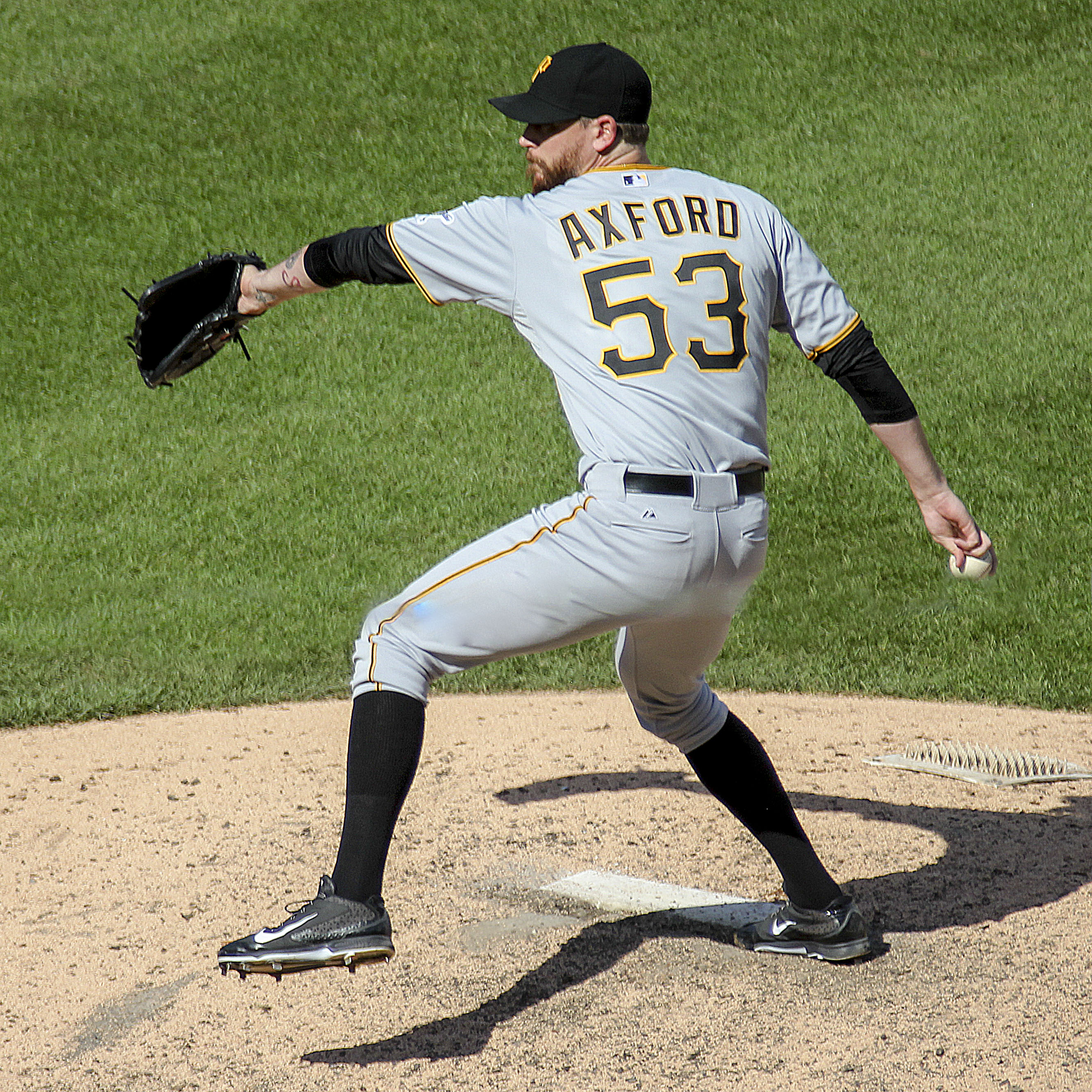 John Axford of the Pirates